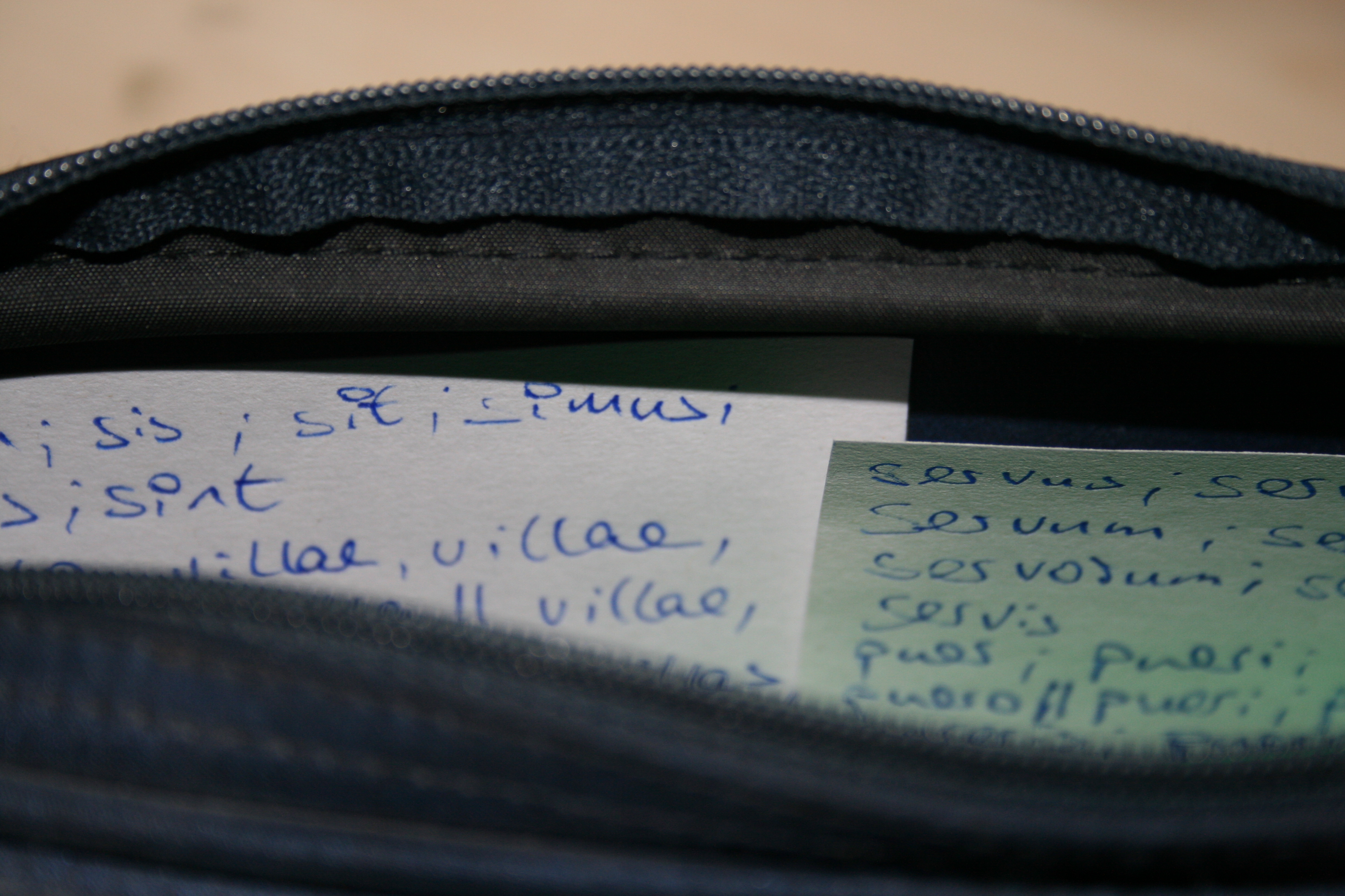 Cheat sheet